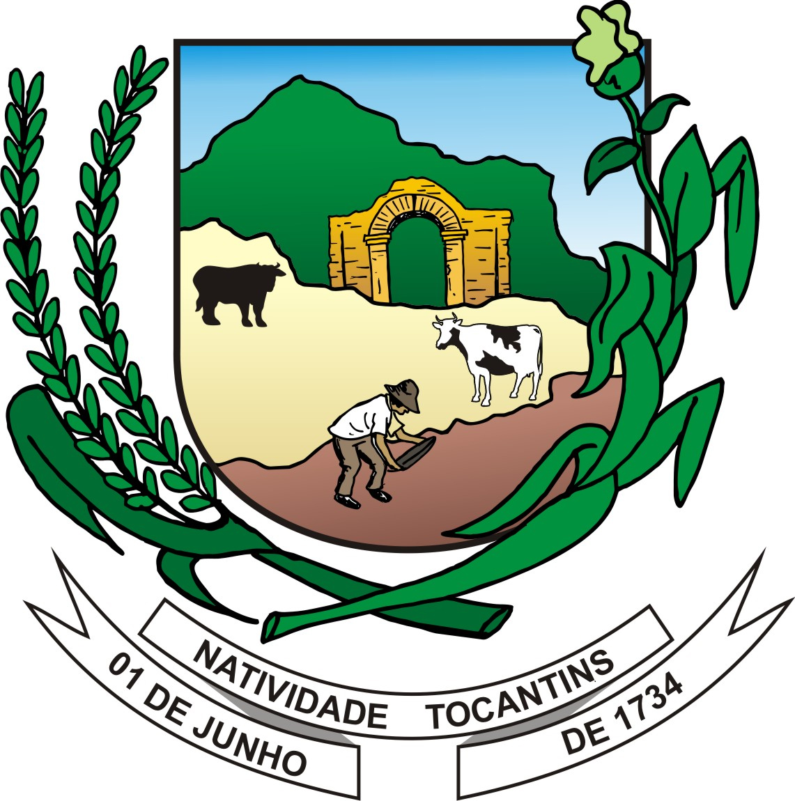 Coat of arm of the city of Natividade, Tocantins, Brazil.